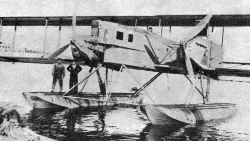 LeO H.255 photo from L'Aerophile January 1934